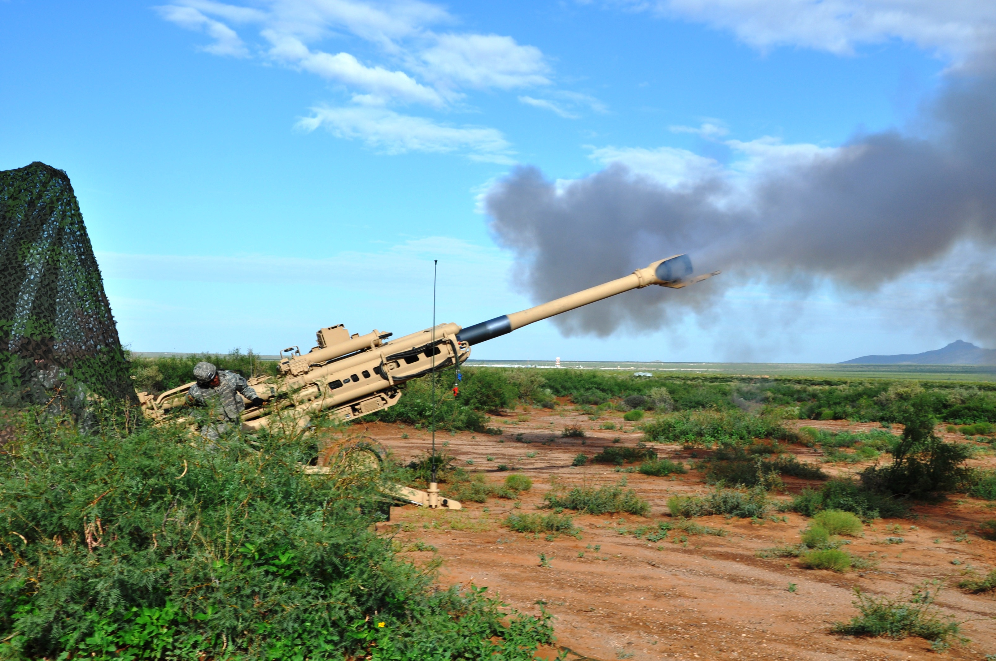 2/1 AD soldiers firing the M777 Howitzer at White Sands Missile Range. (Photo By Wes Elliott, U.S. Army)